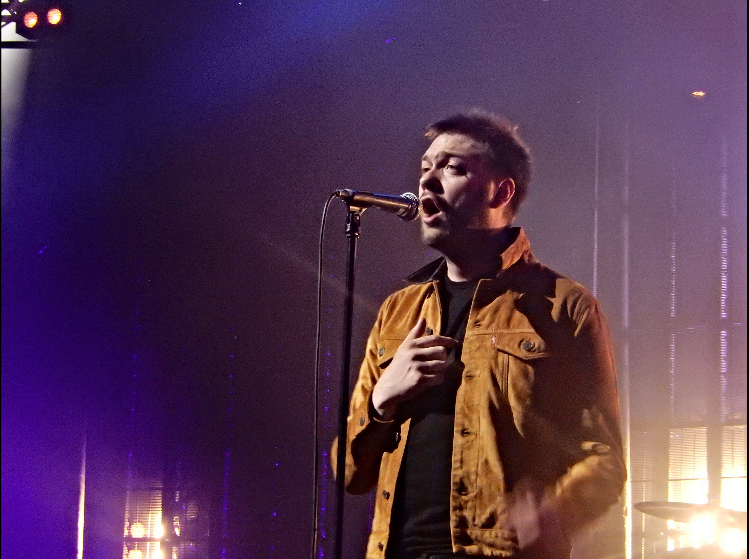 Kasabian, Roundhouse London, iTunes Festival 2014